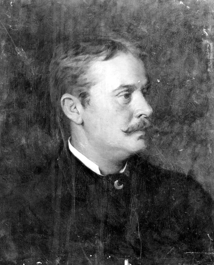 Portrait of Harry Chase by Benoni Irwin. Painted 1883. In the collection of the National Academy of Design, New York, New York.